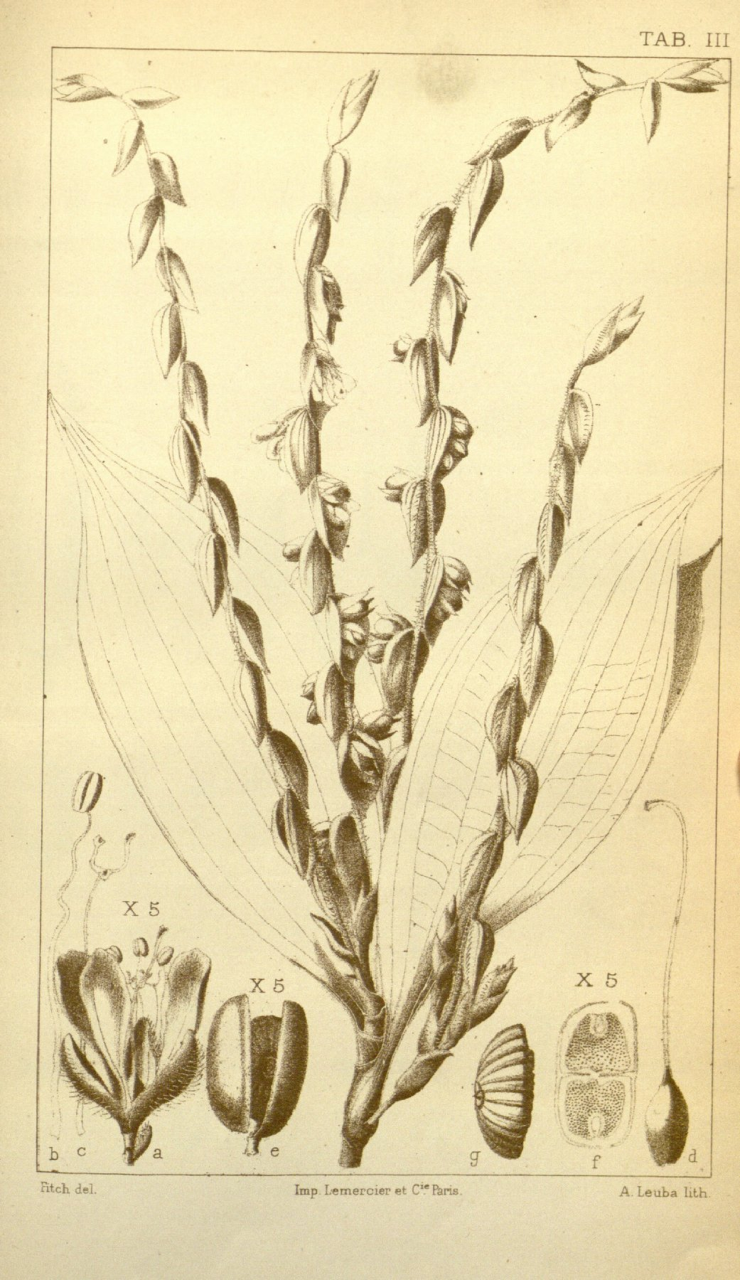 Illustration of Polyspatha paniculata a. Flower b. Fertile stamen c. Sterile stamen d. Ovary with style e. Capsule, lateral view f. Capsule, horizontal section g. Seeds, lateral view; dorsal view of embryostega